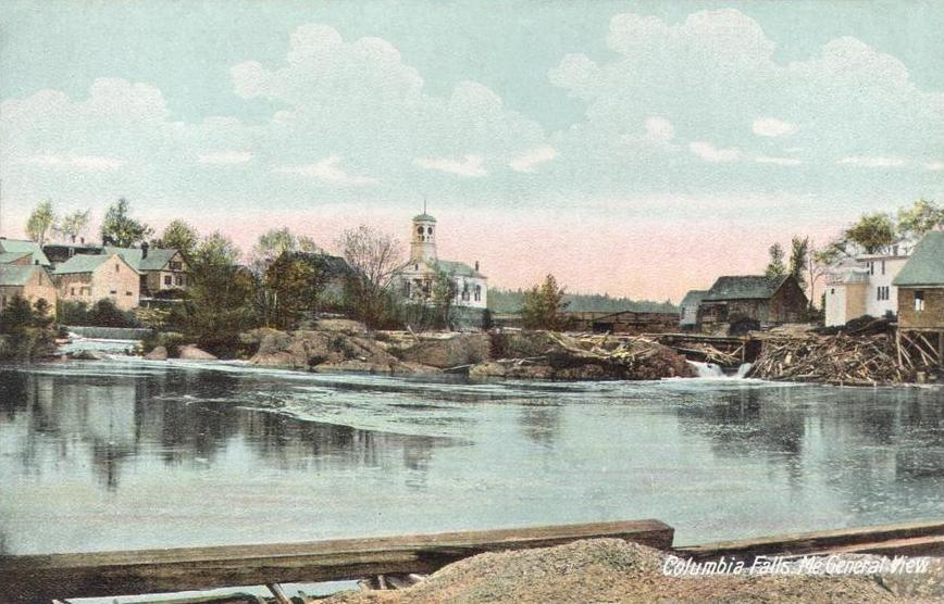 General view of Columbia Falls, Maine